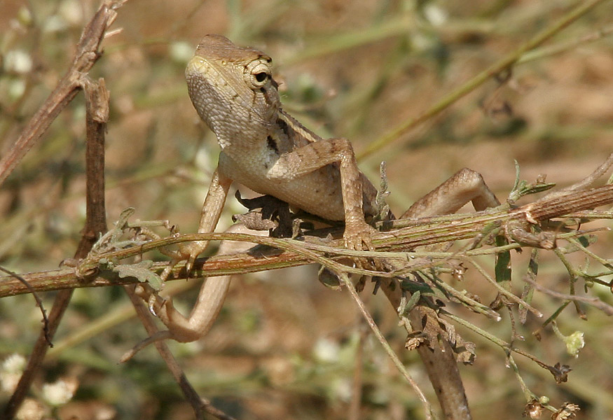 Oriental Garden Lizard Calotes versicolor in Krishna Wildlife Sanctuary, Andhra Pradesh, India.